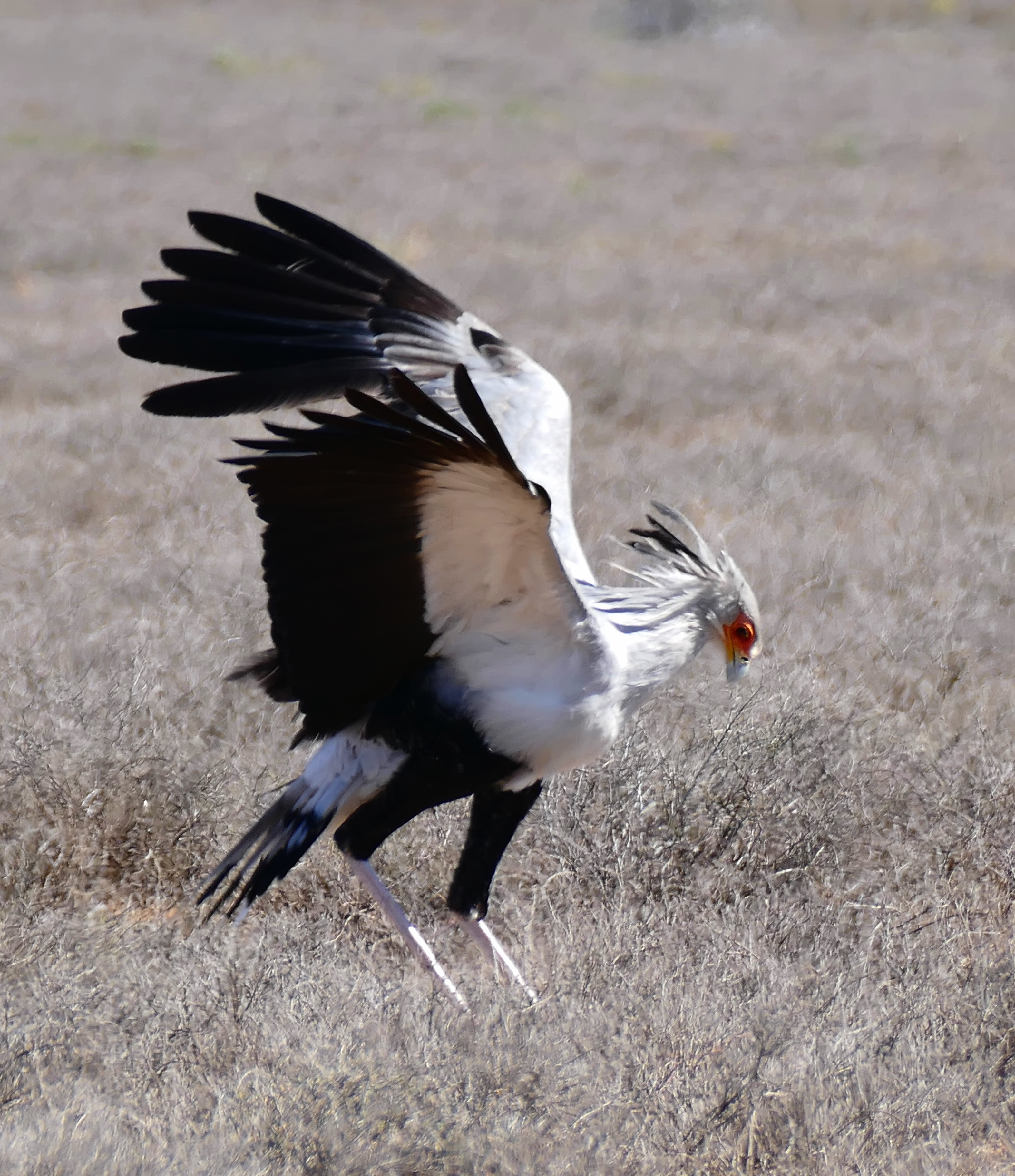 Camdeboo NP, Eastern Cape, SOUTH AFRICA